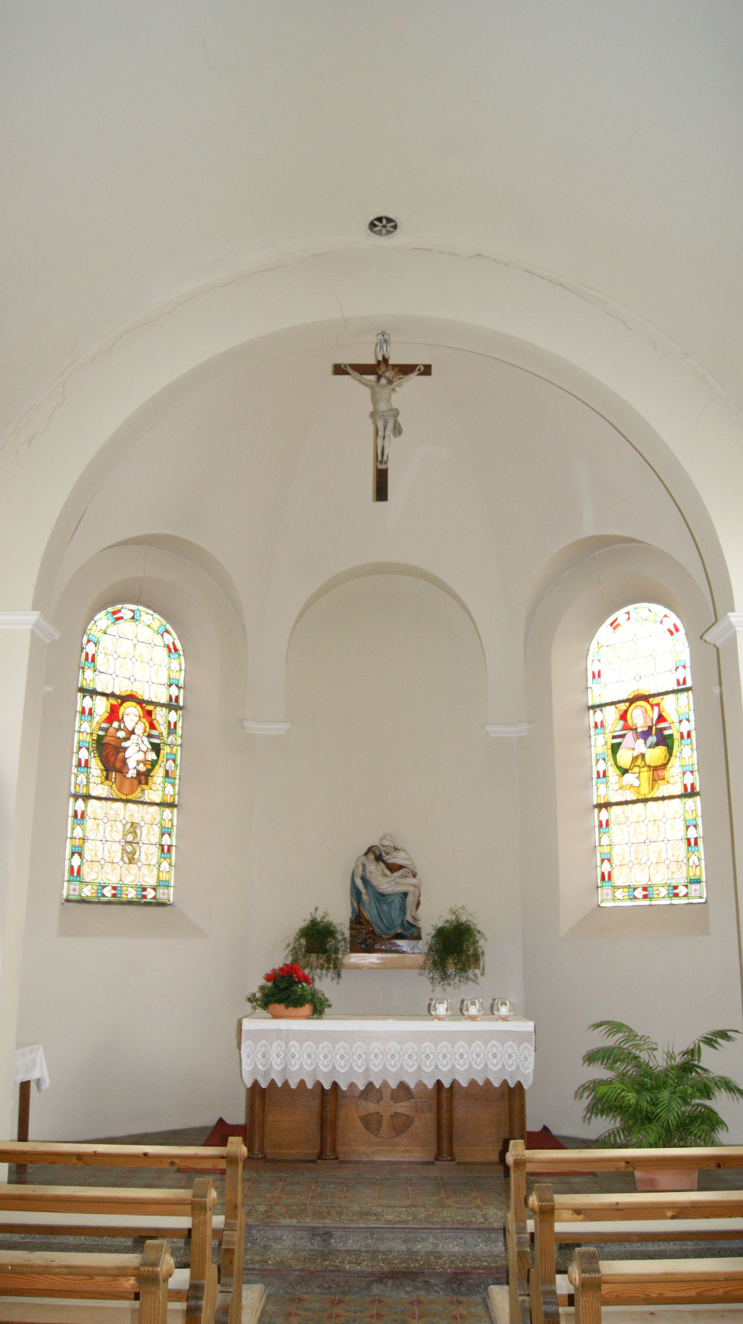 Chapel to the Seven Sorrows of Mary in the local centre "Vordere Achmühle" in Dornbirn, Vorarlberg, Austria. View to the Altar.